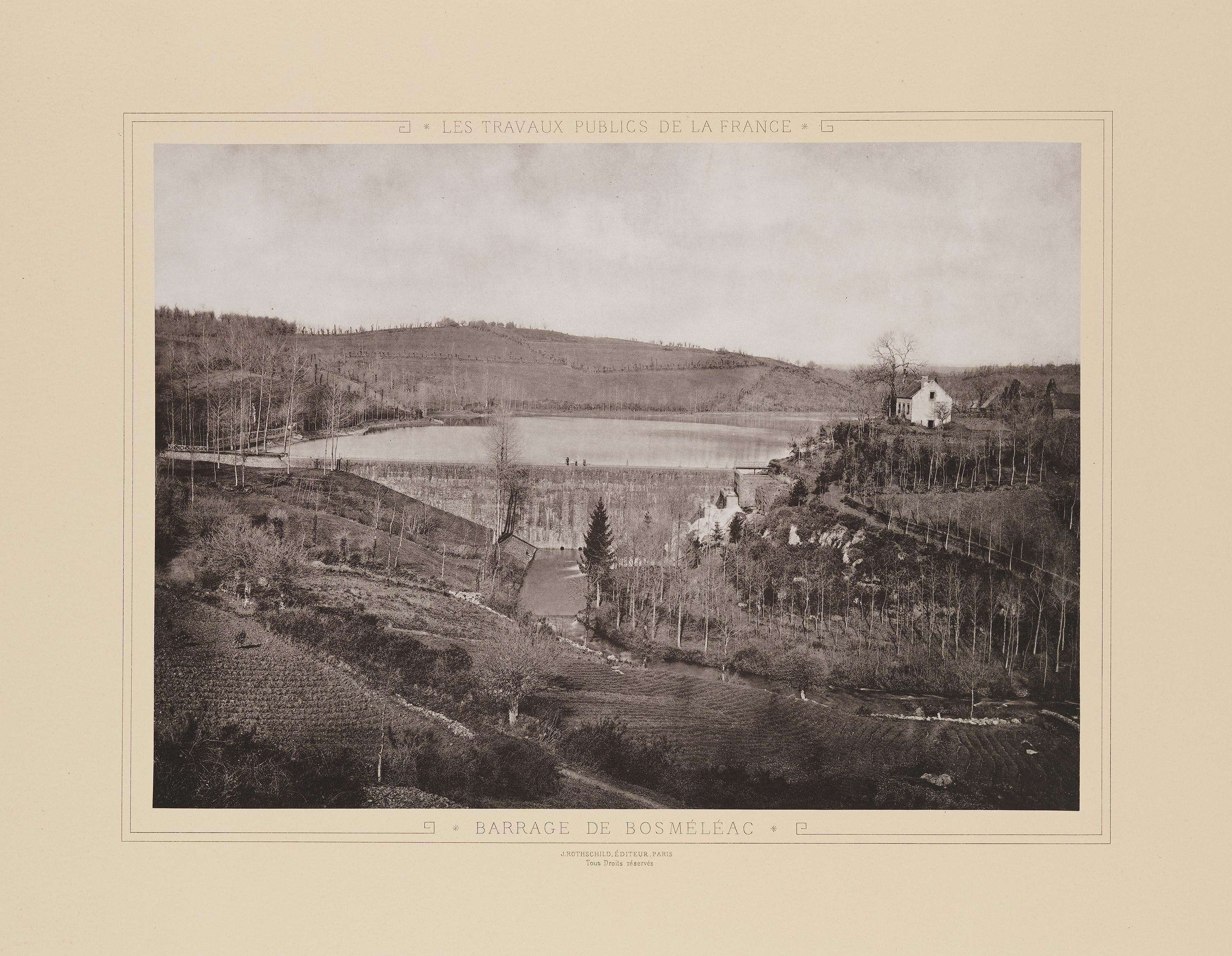 Title: Barrage de Bosmeleac Alternative Title: Bosmeleac Dam Creator: Unknown Date: 1883 Part Of: Les Travaux Publics de la France, Tome Troisieme: Rivieres et Canaux, Eaux des Villes - Irrigation et Assainissement des Terres Place: Bosmeleac, Brittany, France Physical Description: 1 photographic print: collotype; 26 x 35 cm on 40 x 56 cm mount File: vault_folio_2_ta71_a4_1883_3_36_opt.jpg Rights: Please cite Southern Methodist University, Central University Libraries, DeGolyer Library when using this image file. A high-quality version of this file may be obtained for a fee by contacting . For more information, see